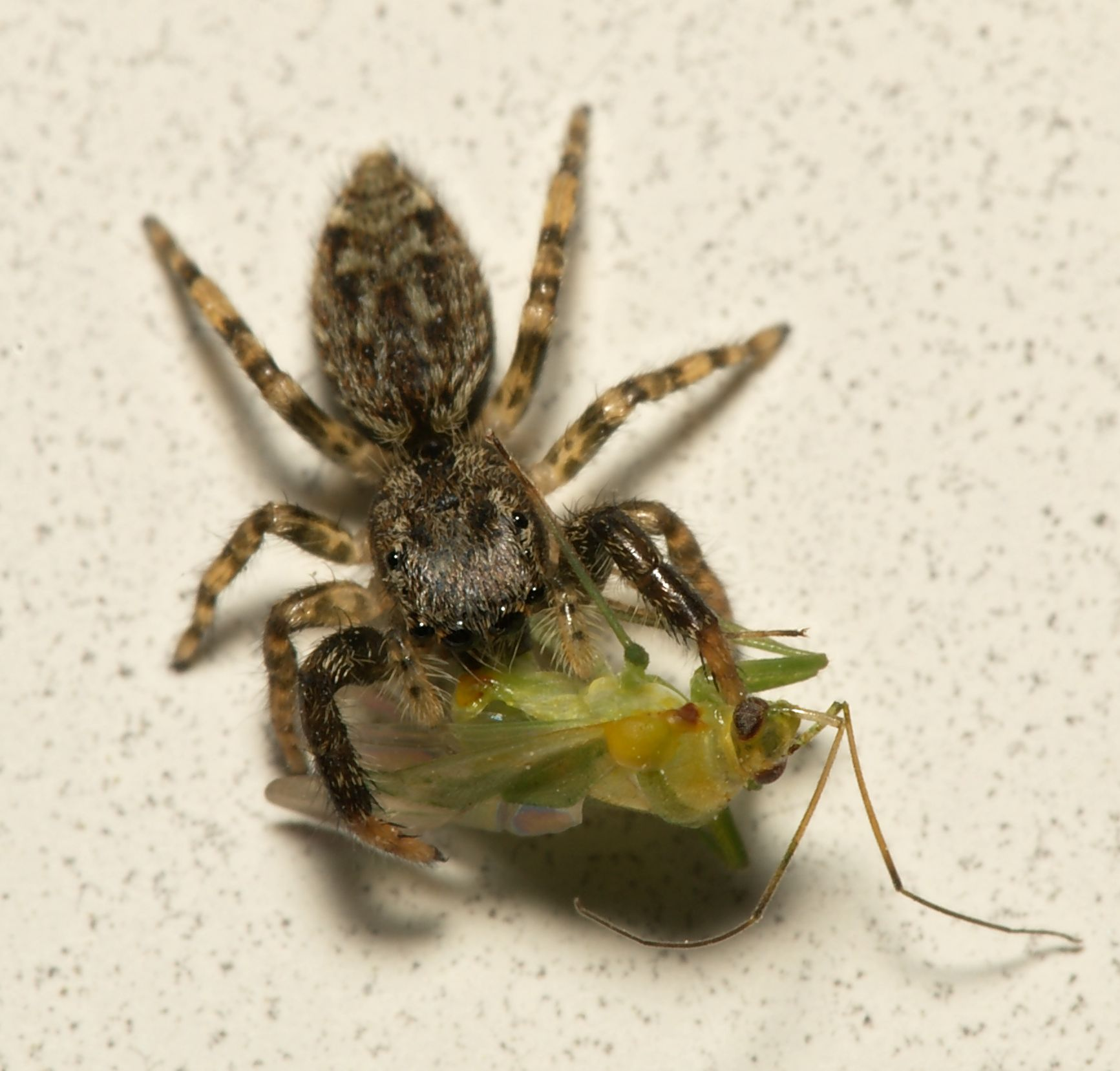 young Marpissa muscosa (c. 4 mm) with unidentified bug (Miridae) as prey, in Hinsbeck, Nettetal, Germany.